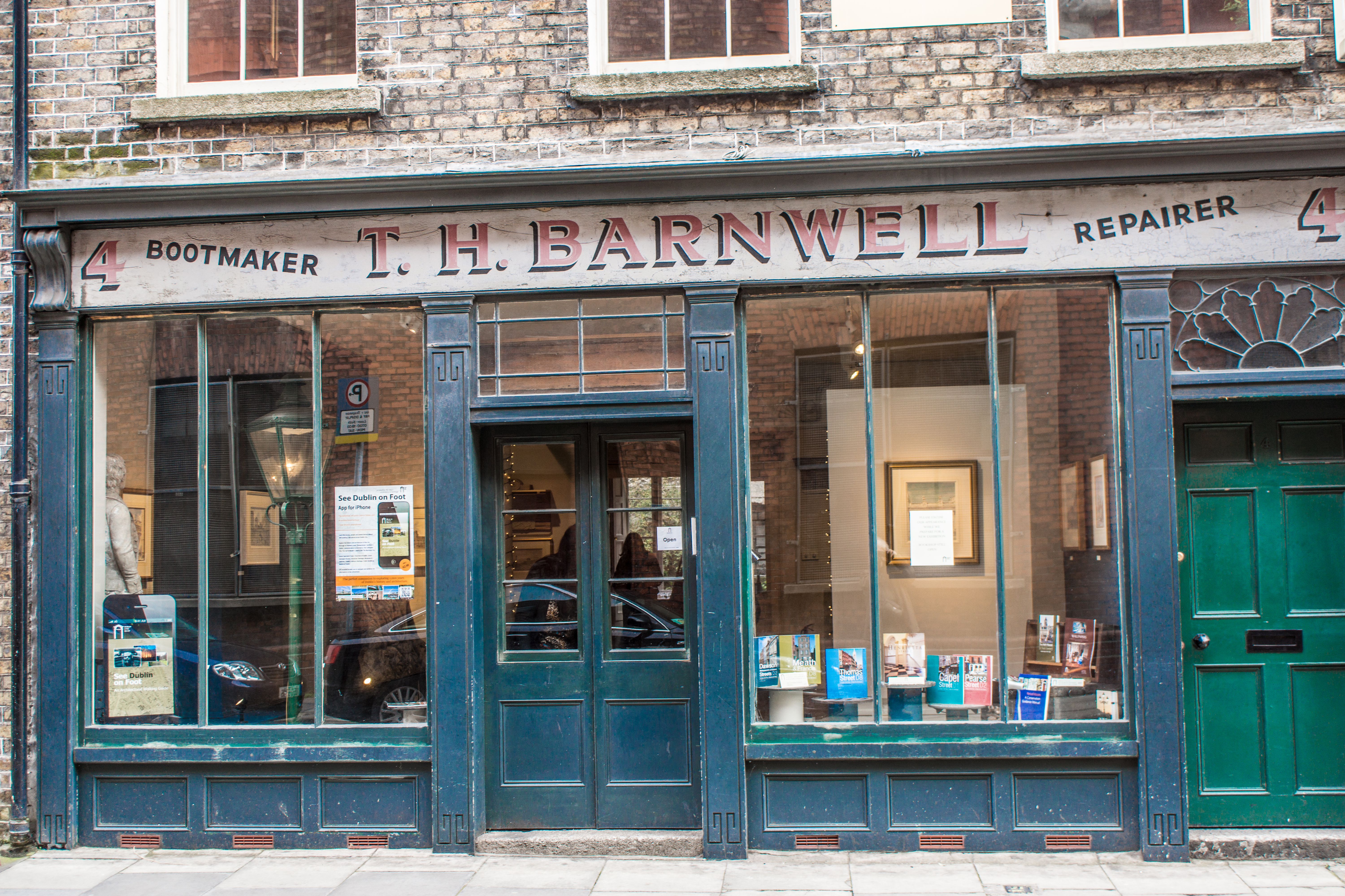 4 Castle Street, Dublin (Restored by Dublin Civic Trust)